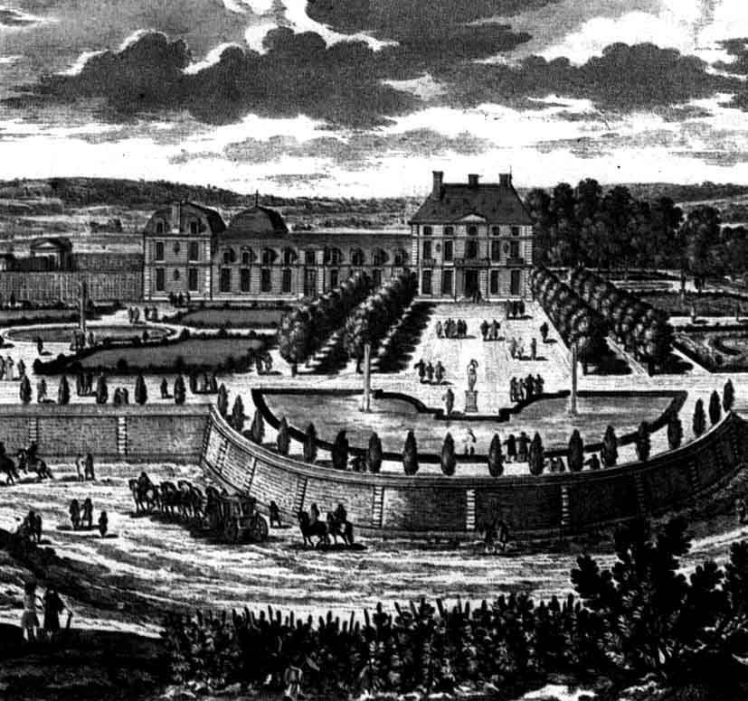 The château de Sceaux, old engraving